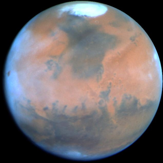 Hubble Space Telescope view of Mars, showing Polar Ice Cap. The bluish haze of the Martian atmosphere is noticeable, particularly at the edges.